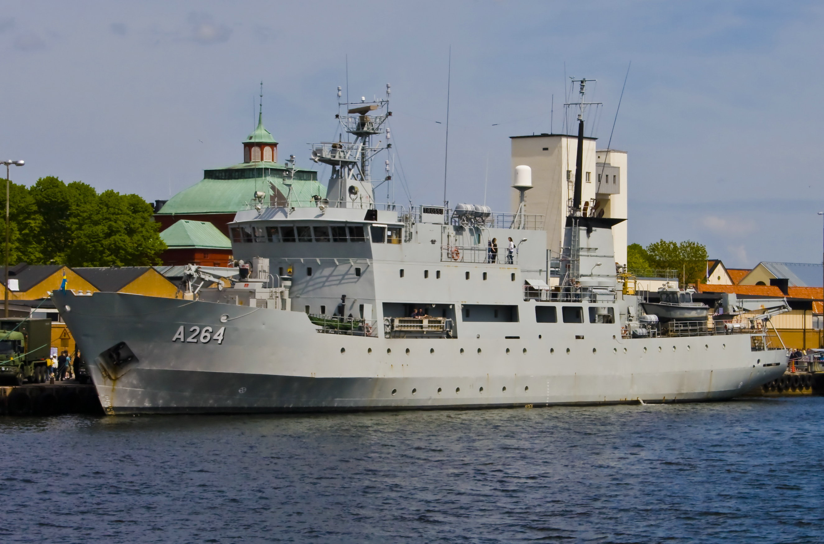 Swedish naval ship HMS Trossö (A264) at 'Marinens Dag' in Karlskrona, Sweden, when the naval base was open to visitors.